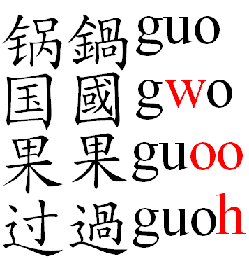 The four tones of guo as written in characters (simplified on left, traditional on right) and Gwoyeu Romatzyh. Note the spelling differences, highlighted in red, for each tone.